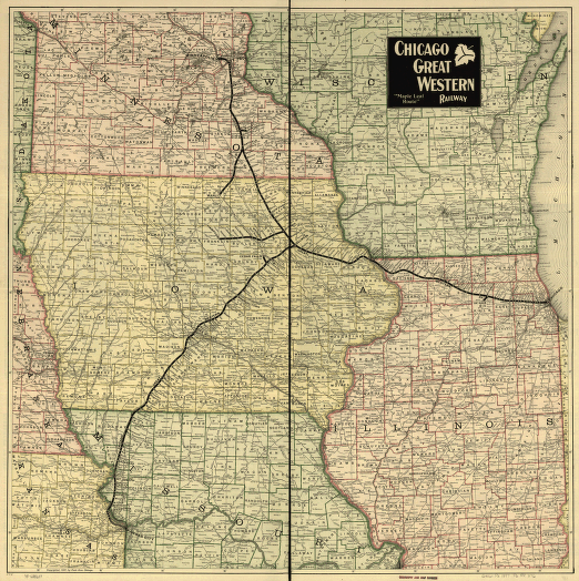 Chicago Great Western Railway "Maple Leaf Route.", 1897 Library of Congress, Geography and Map Division.